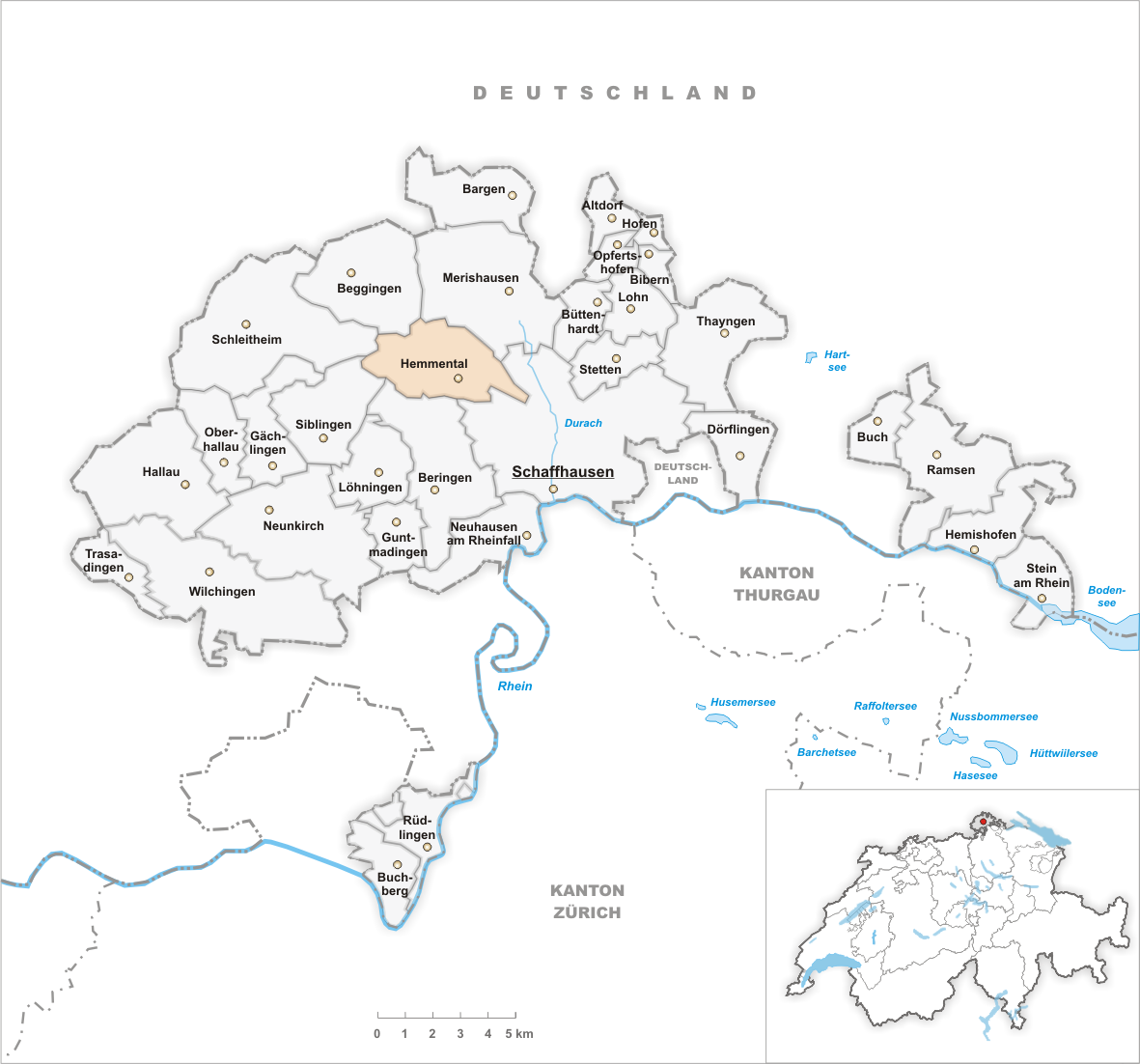 Municipality Hemmental